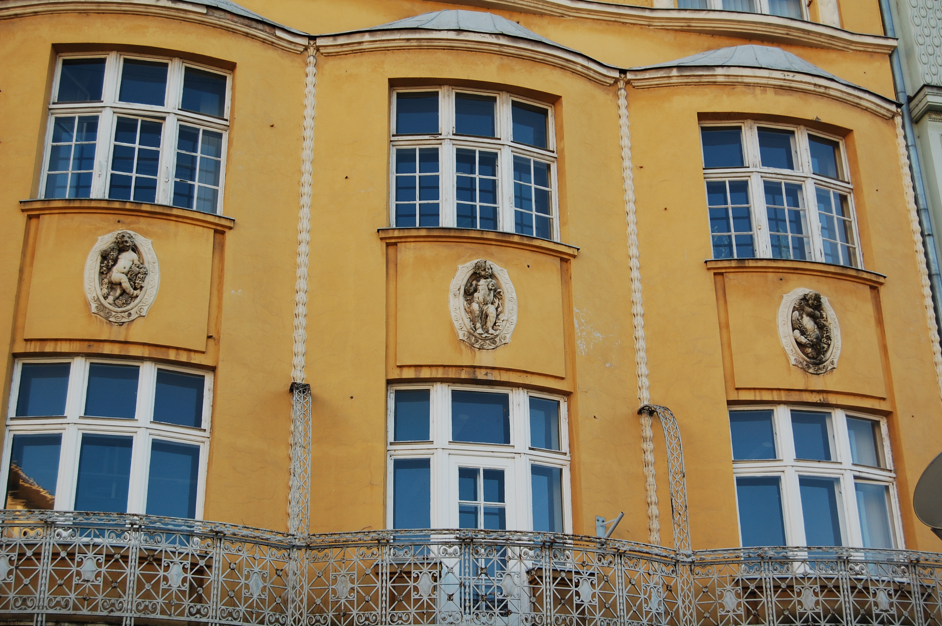 Statues on the building at Masaryk square in Ostrava, Czech republic.